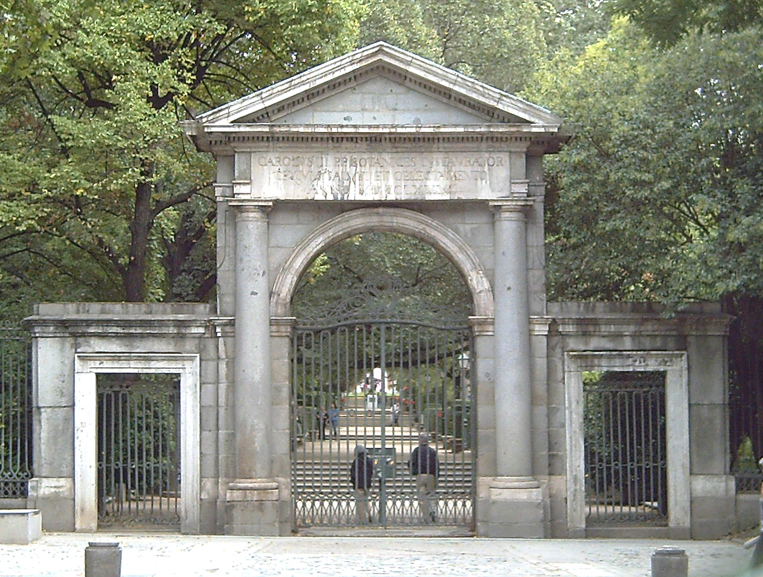 Royal Gate of the Royal Botanical Garden of Madrid (Spain), at the Paseo del Prado (boulevard). Projected by Francesco Sabatini (1722–1797) and built in 1781.